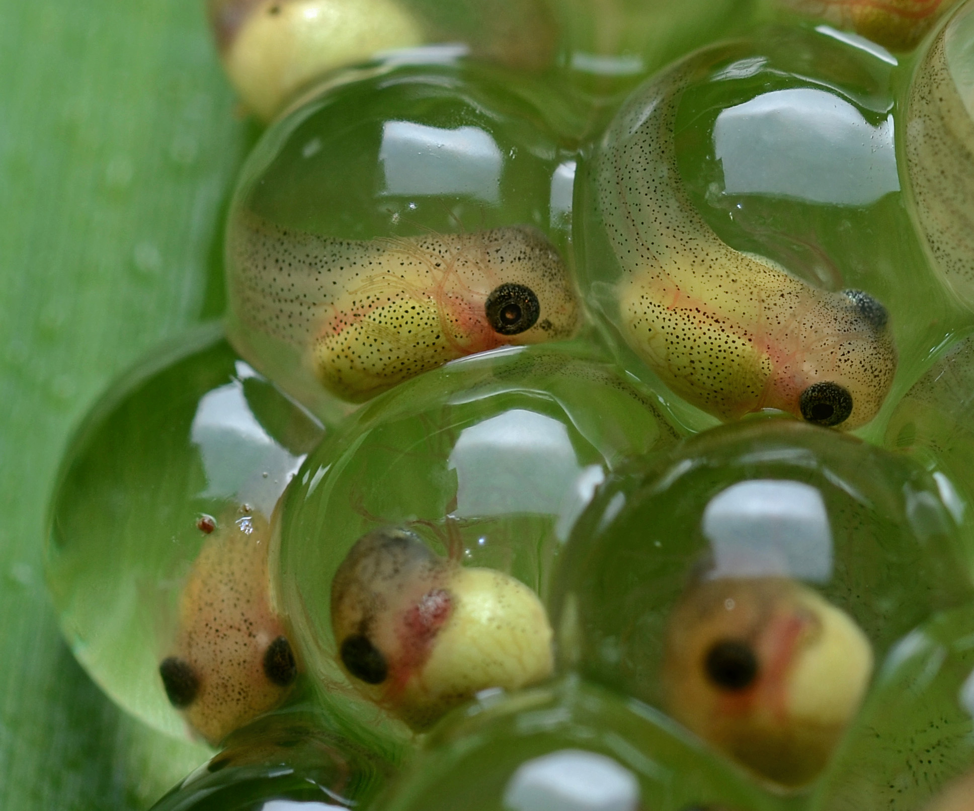 Agalychnis callidryas tadpoles - image taken in La Selva Biological Station